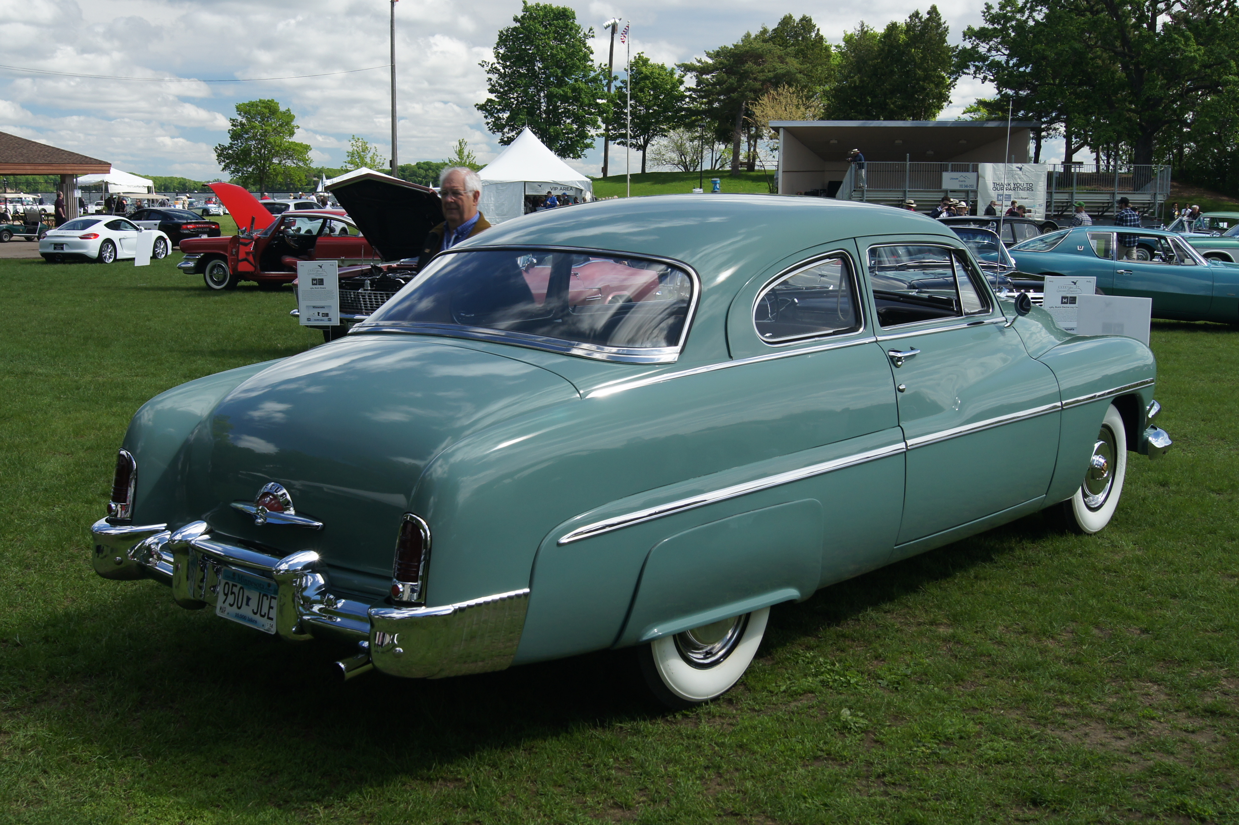 51 Mercury Sport Coupe